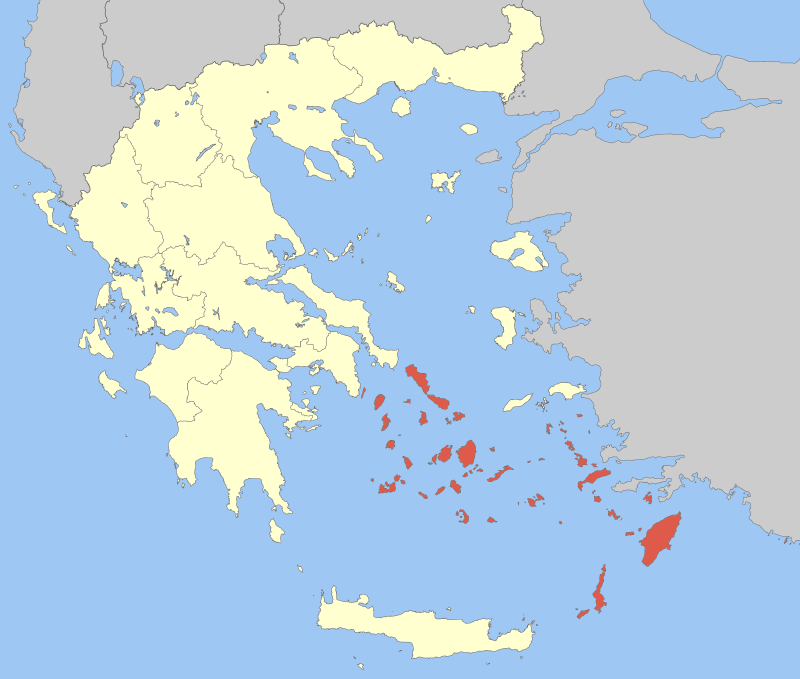 Locator Map of Southern Aegean Periphery, Greece